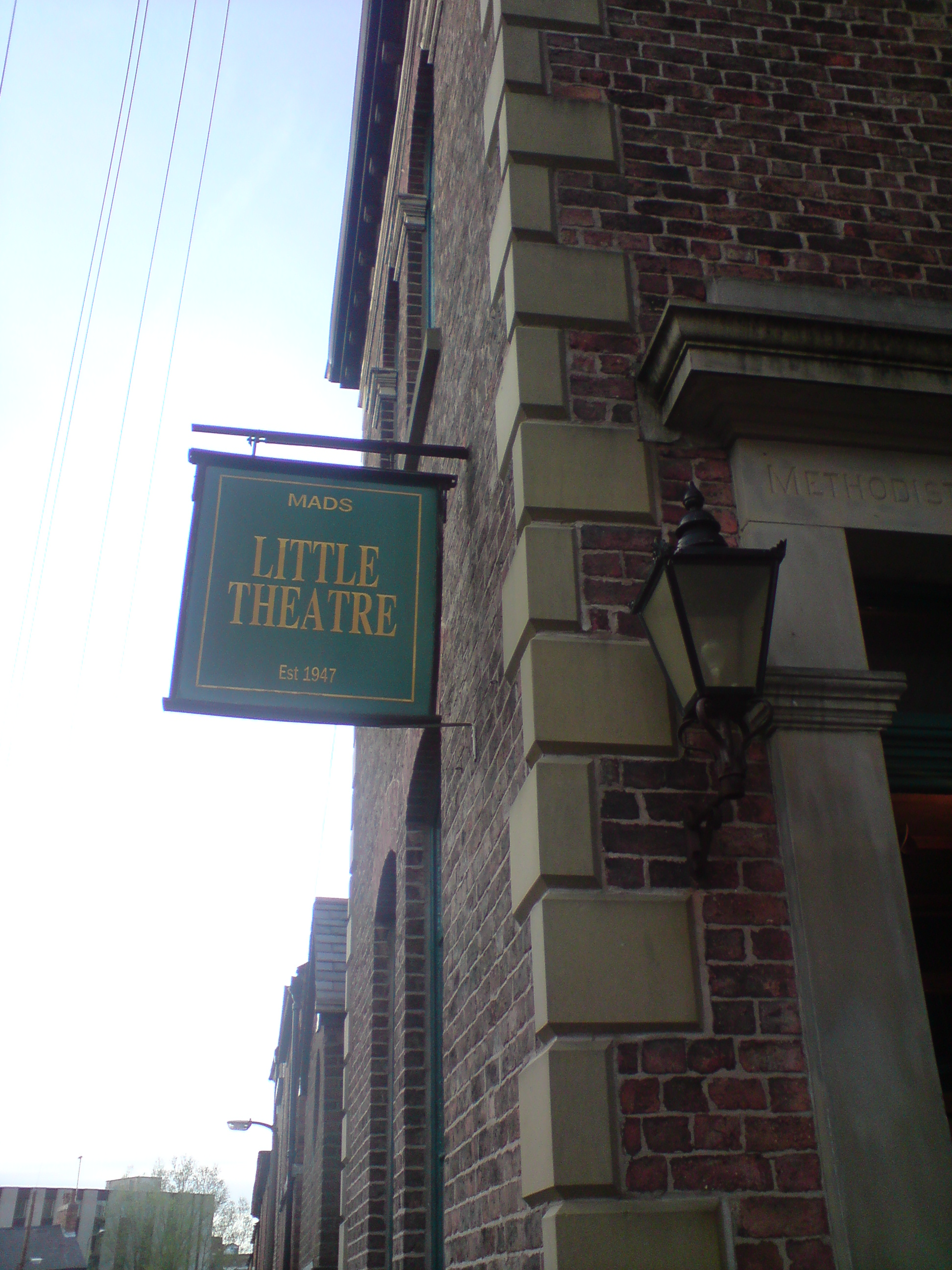 The Little Theatre, Lord Street, Macclesfield